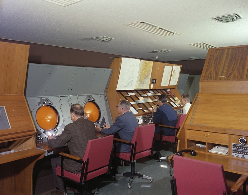 Air traffic control at Oslo Airport, Fornebu